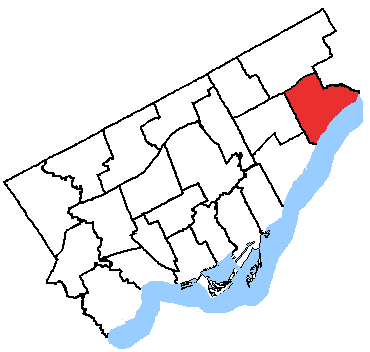 Map of the Scarborough—Guildwood electoral district. Based on Earl Andrew's :Image:Ct04.PNG and :Image:St04.PNG, created by SimonP.